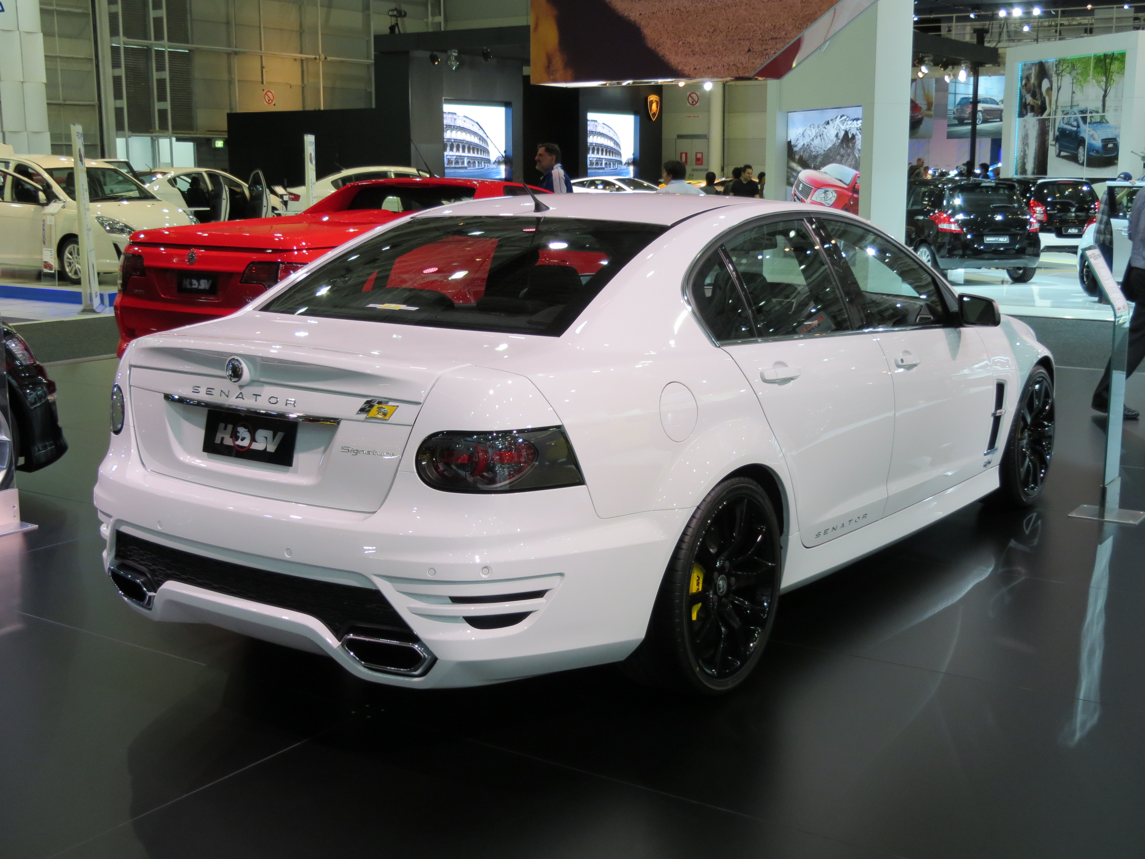 2012 HSV Senator (E Series MY12.5) Signature sedan. Photographed at the 2012 Australian International Motor Show, Sydney, New South Wales, Australia.